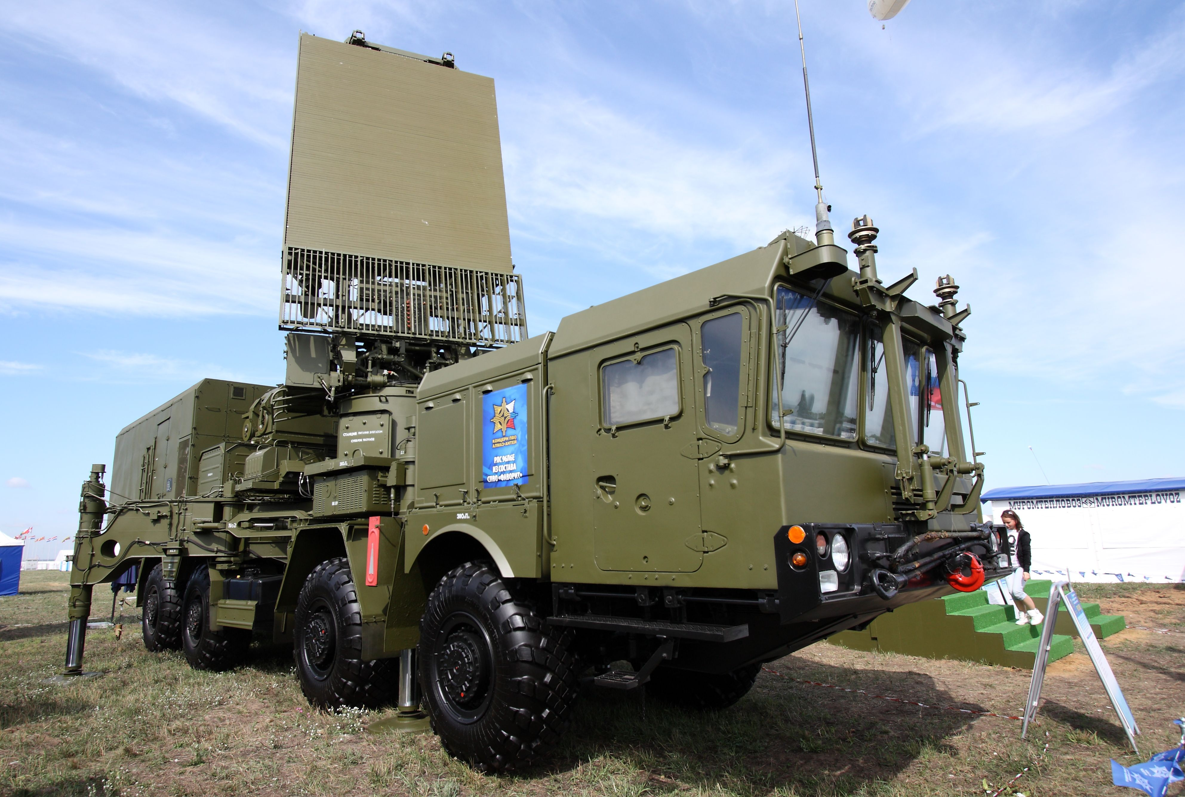 Radar 96L6E from Favorit (The international aerospace salon MAKS-2011)